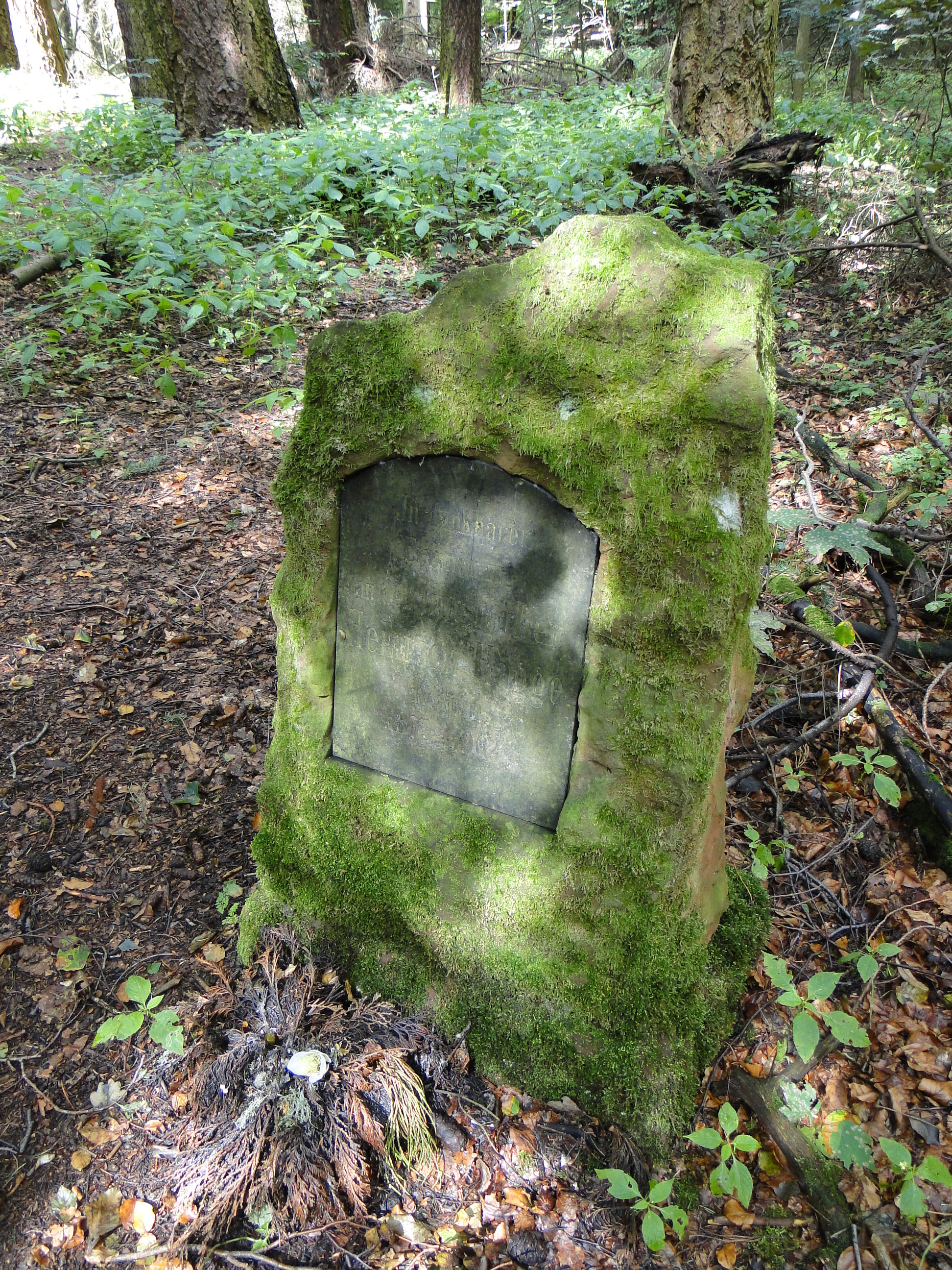 Memorial for forester Heinrich Hagge near Kölpin, district Ludwigslust-Parchim, Mecklenburg-Vorpommern, Germany